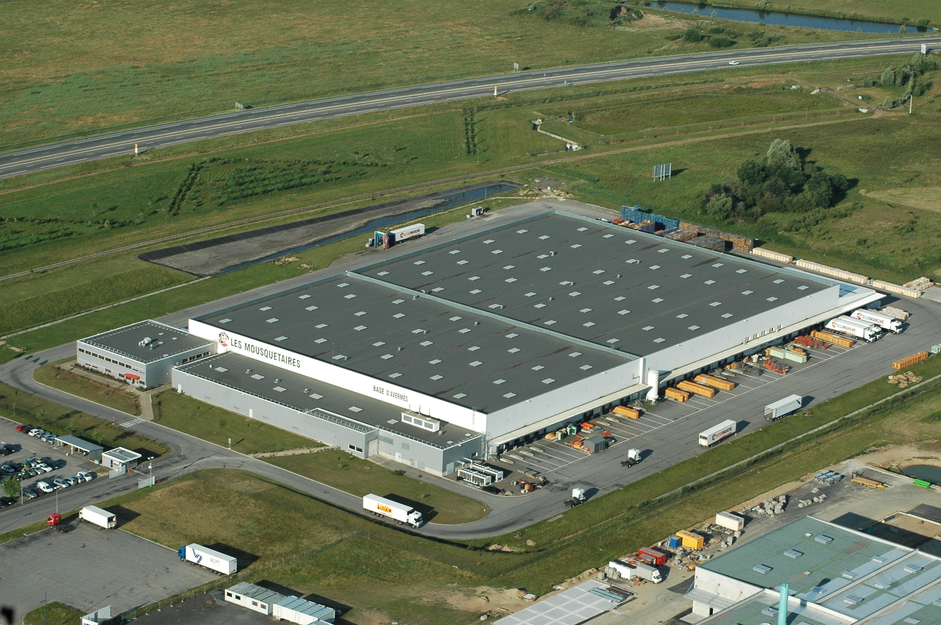 Les Mousquetaires, Z.A. "Les Petits Vernats", Avermes, 03, France